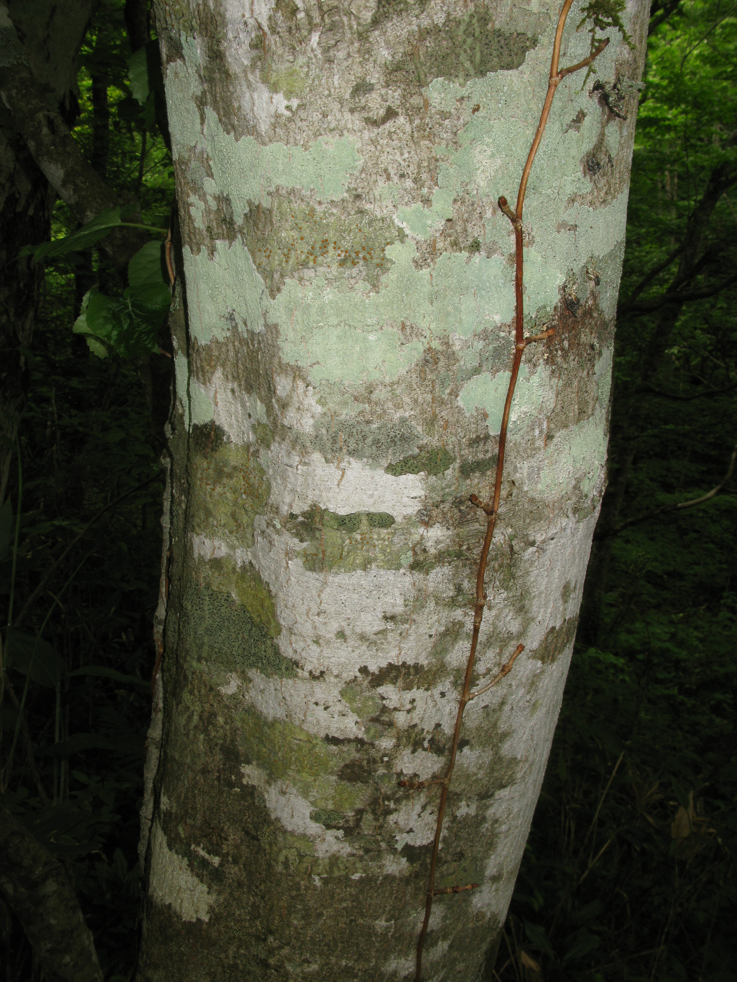 Prunus ssiori, Mount Nishi-Azuma, Fkushima pref., Japan